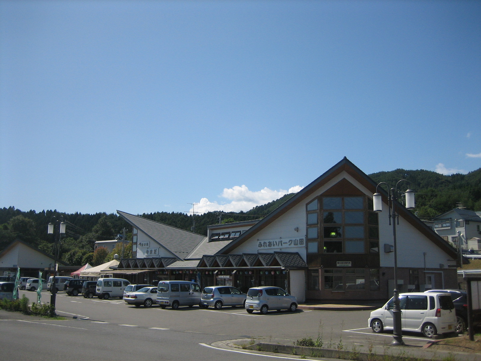 Michinoeki Yamada in Iwate, Japan